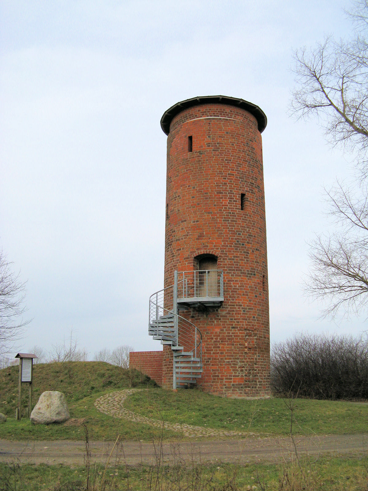 Fangelturm (prison tower) / former Steinburg (stone castle) on the border between Parchim and Rom, Mecklenburg-Vorpommern, Germany